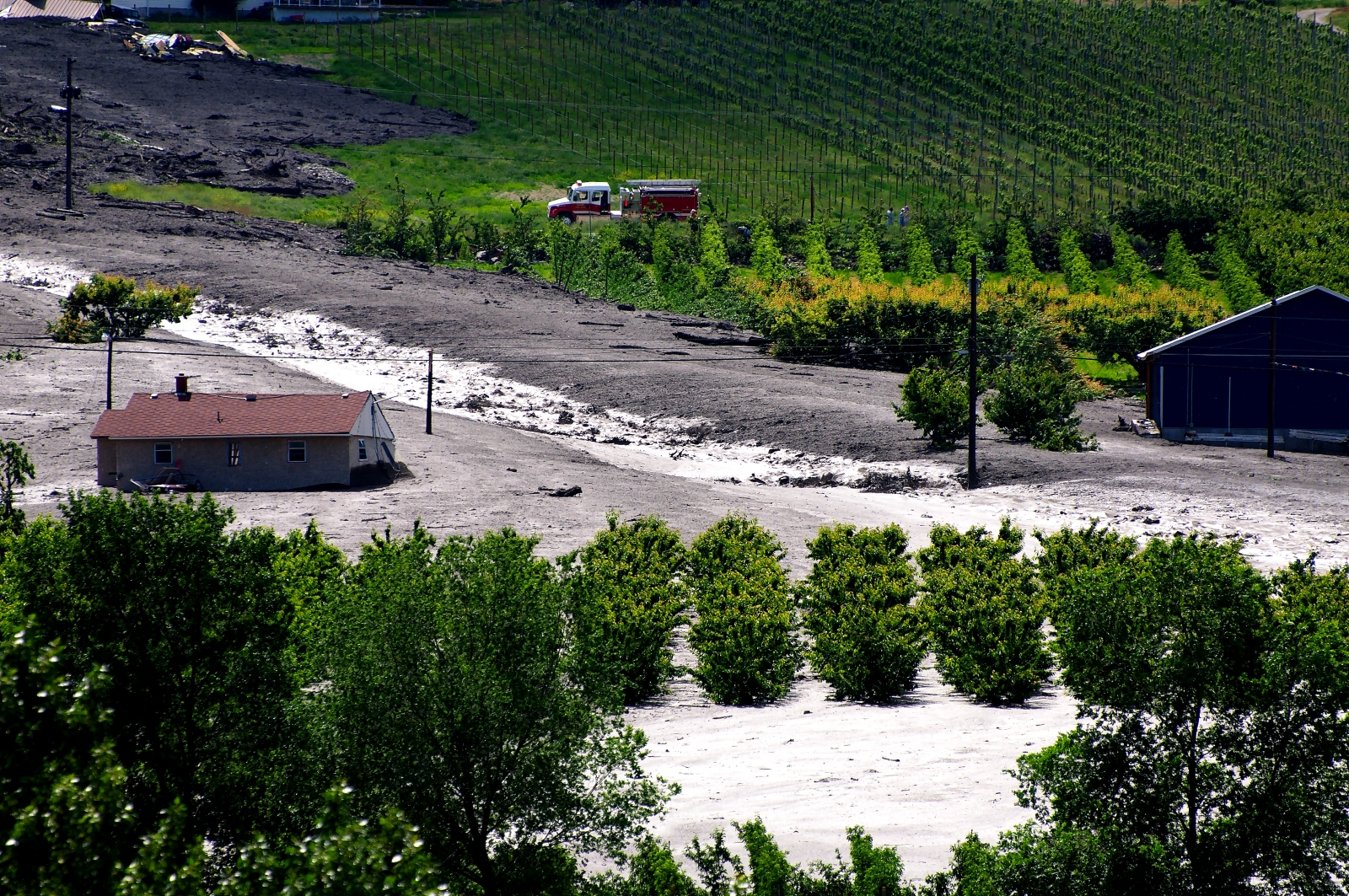 An example of the massive mudslide that hit the Canadian wine region of the Okanagan Valley in British Columbia.